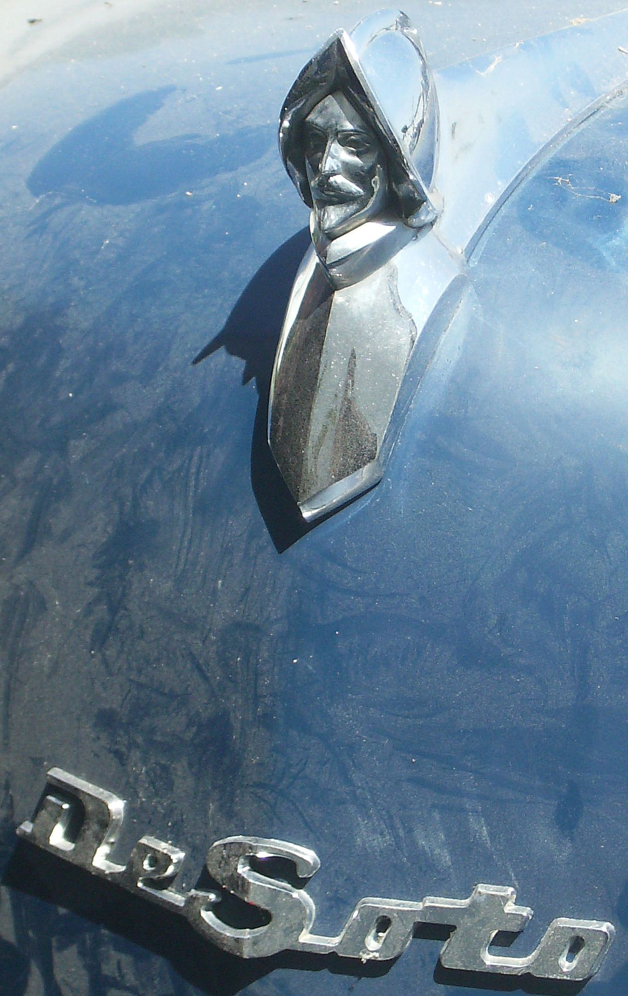 Hood ornament on a 1952 1950? DeSoto DeLuxe automobile in Harrisonburg, Virginia.